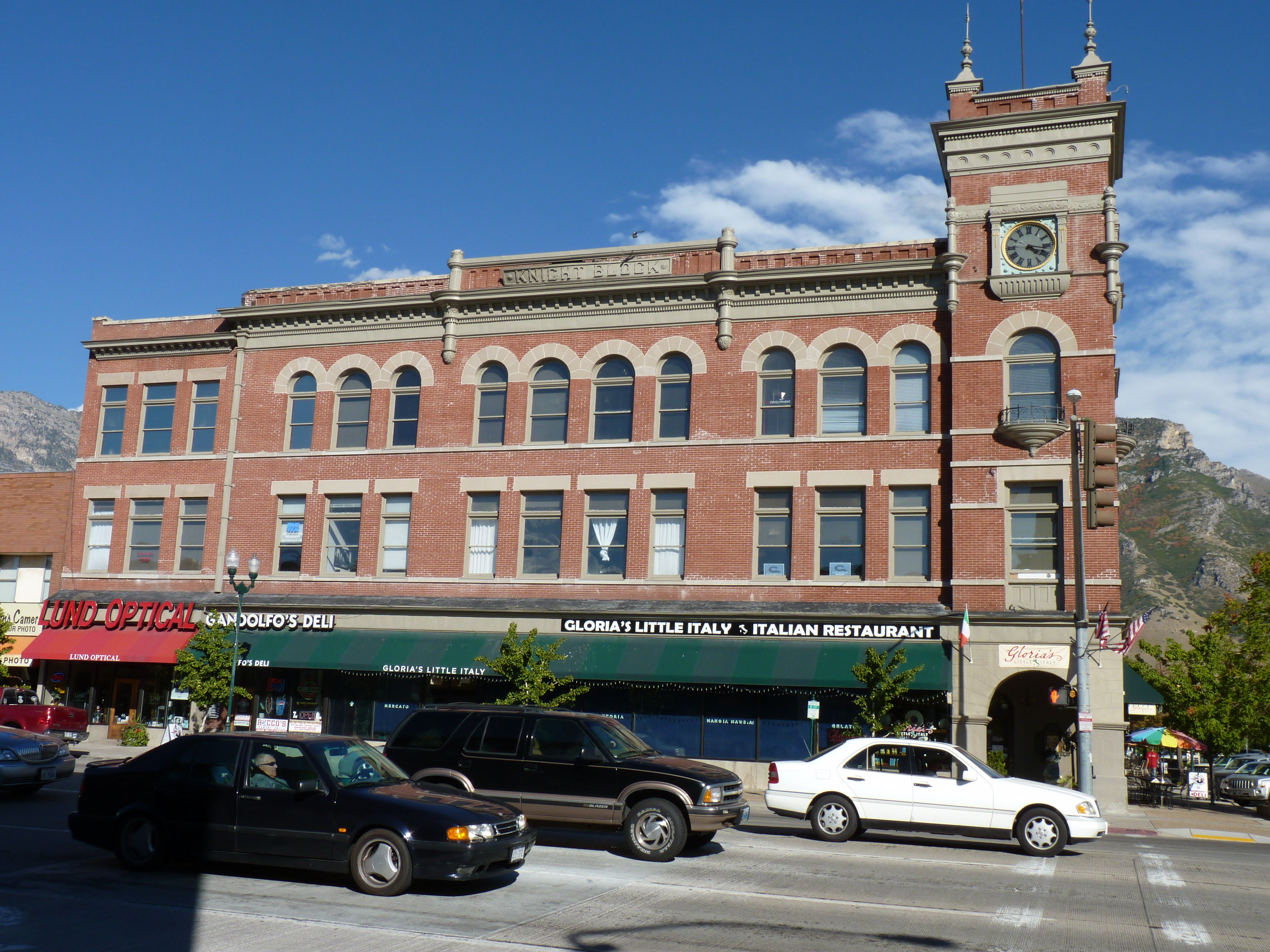 The Knight Block is located in Provo, Utah and is listed on both the NRHP and the Provo City Historic Landmarks Registry.